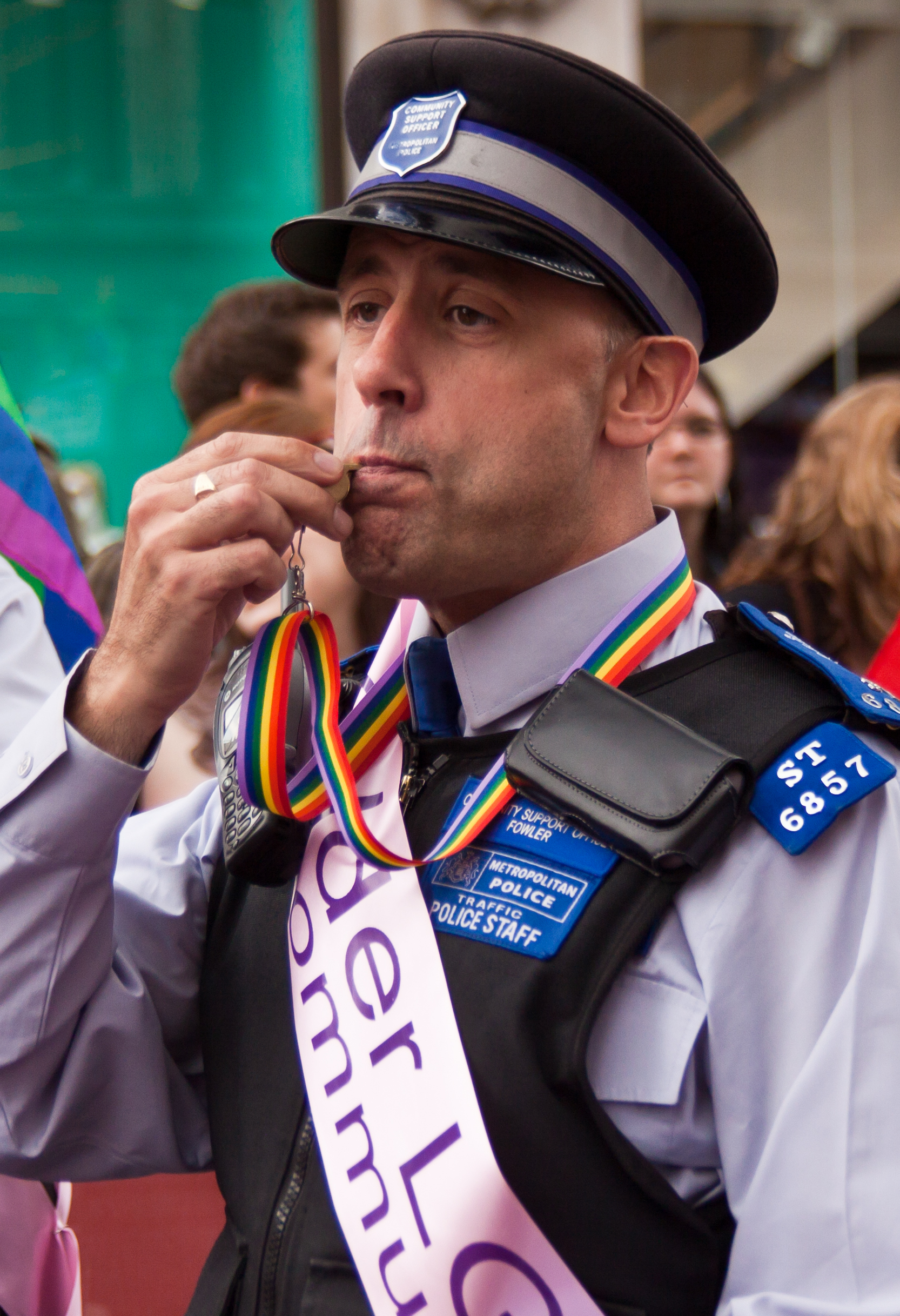 Older LGBT Community